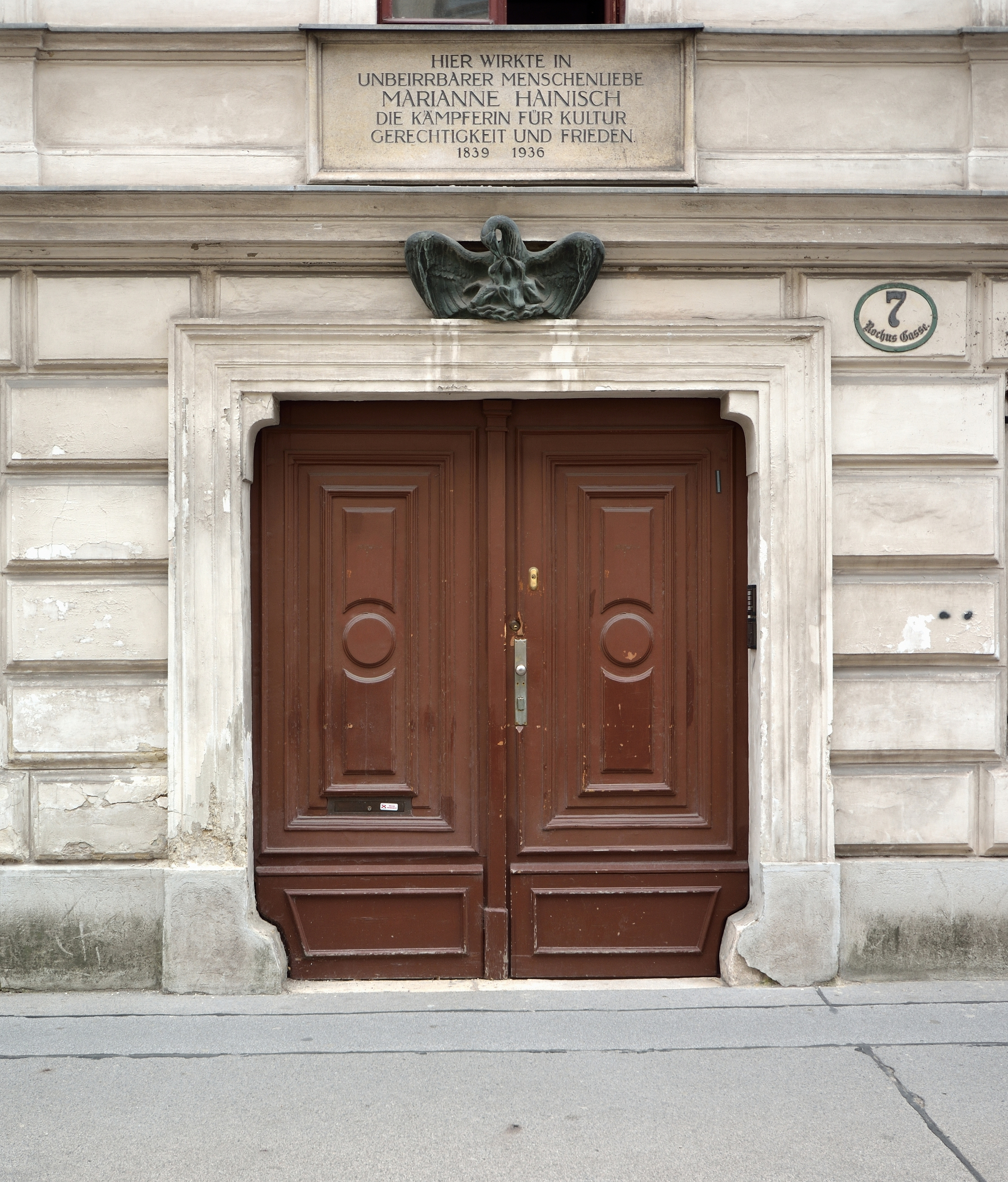 Portal of a residence of Marianne Hainisch, Rochusgasse 7, 3rd district of Vienna